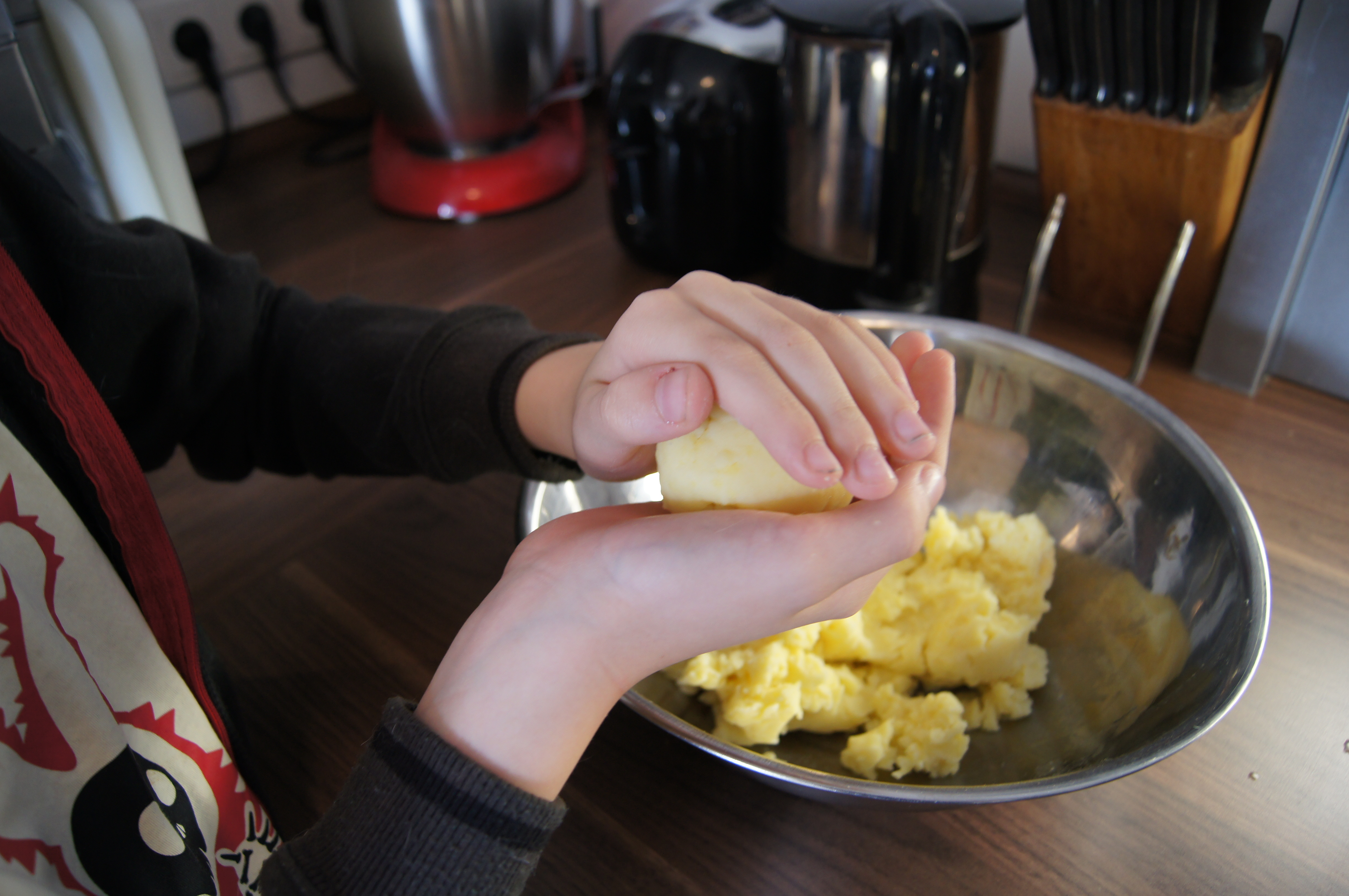 Making of Thüringer Klöße. Shaping the dumplings